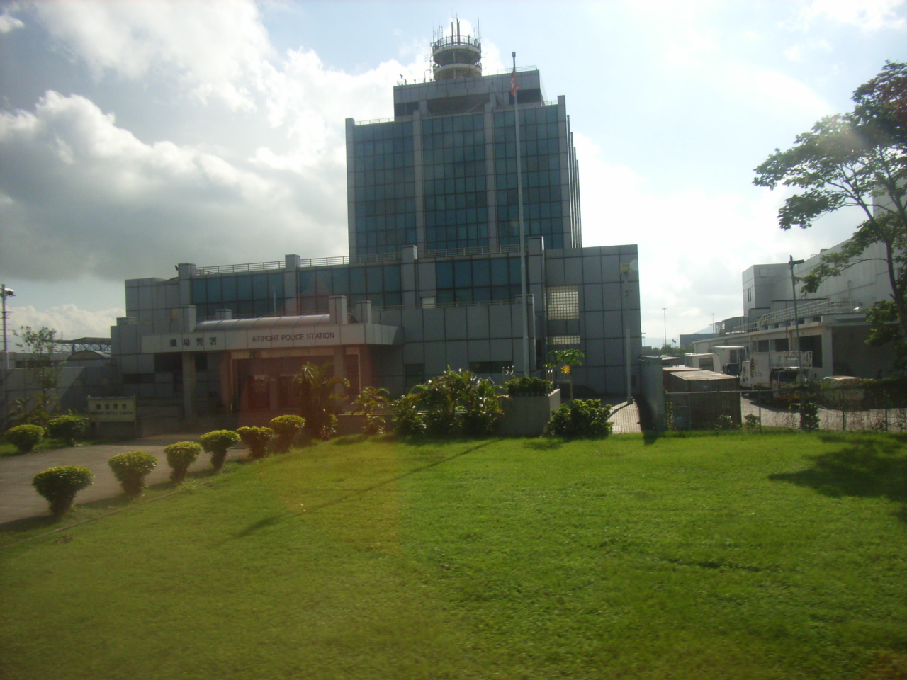 Buildings in Hong Kong International Airport, Lantau Island. by Green fish